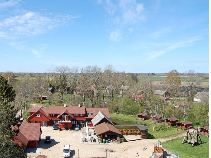 Estonia, county Viljandi, parish Viiratsi, village Valma. View in west direction .